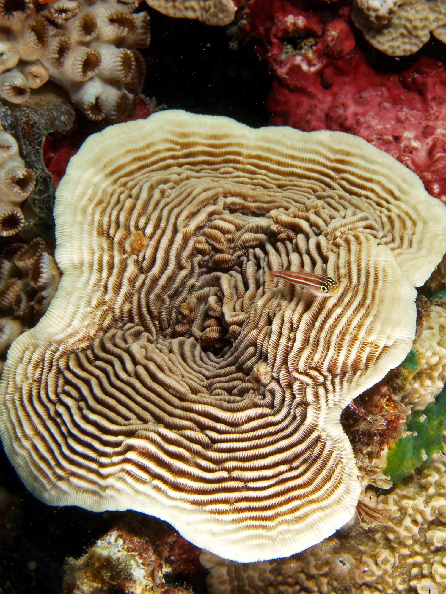 Pachyseris speciosa (Hard coral) with Helcogramma striata (Neon triplefin)